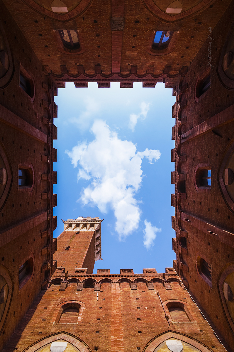 Torre del Mangia towering from the patio of Palazzo Pubblico